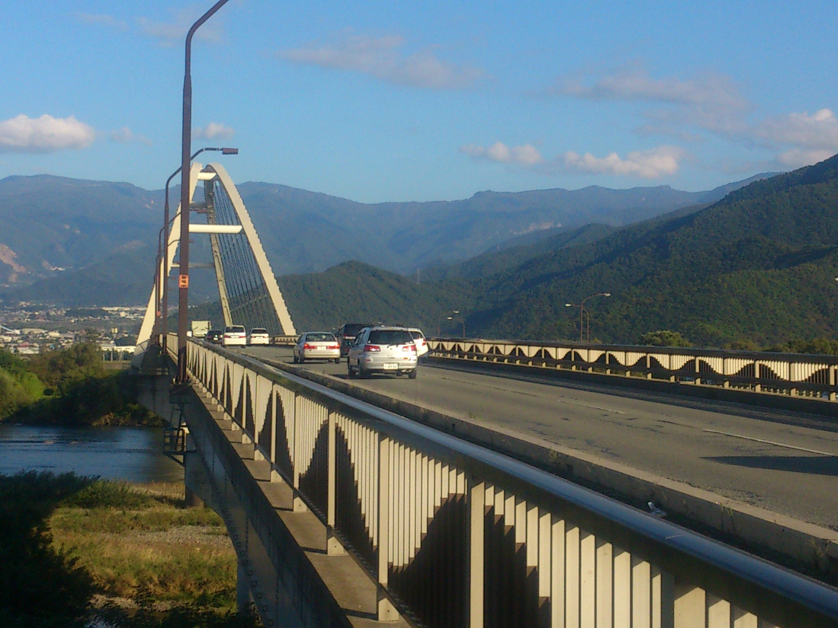 The Yashima Bridge over the Chikuma River on the Nagano Prefectural Road Route 58, between Nagano and Suzaka Cities